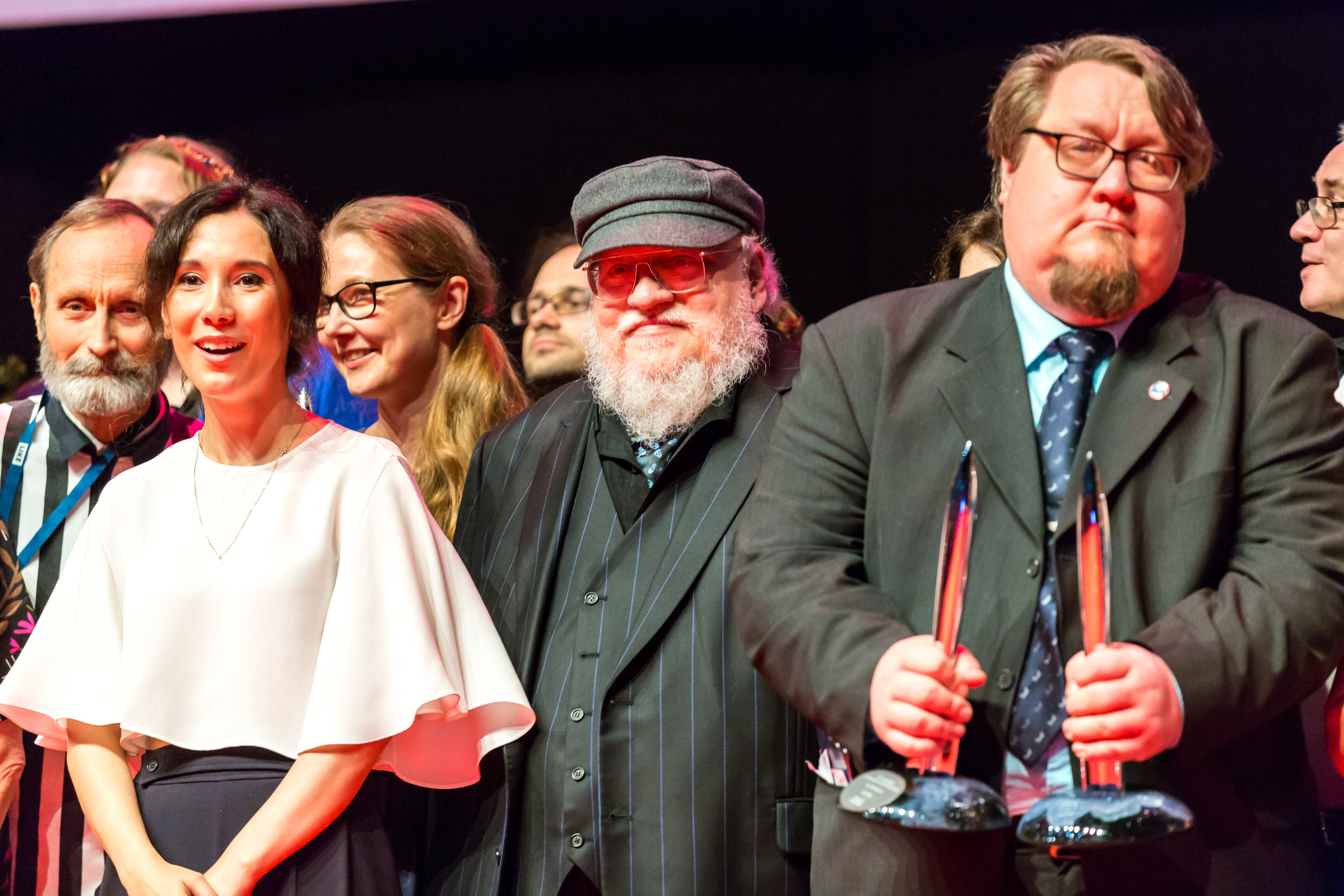 Sibel Kekilli, George R.R. Martin and Jukka Halme at the Hugo Award Ceremony, at Worldcon 75 in Helsinki 2017.